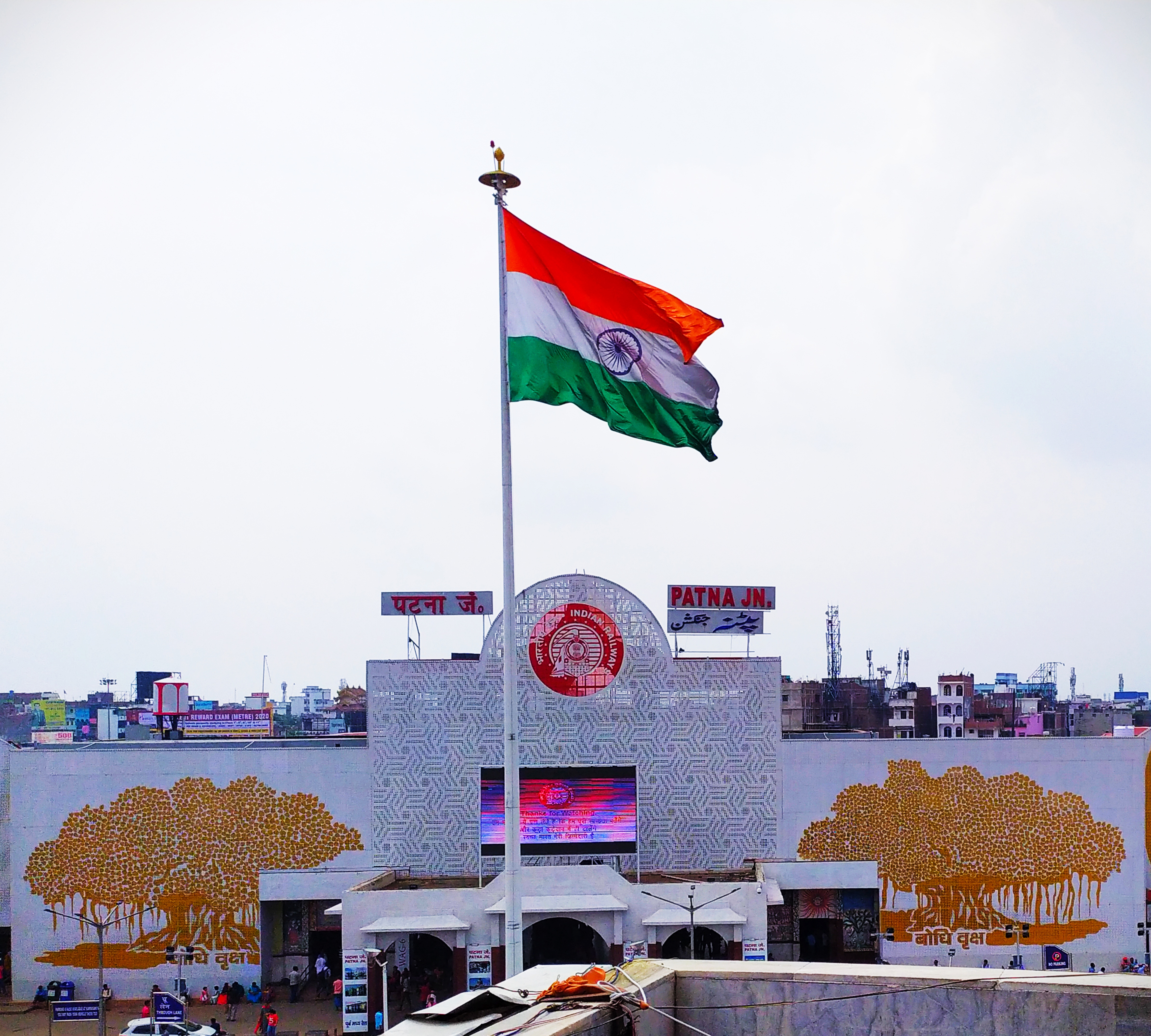 This is front view of Patna junction, this photo is clicked from Mahavir mandir